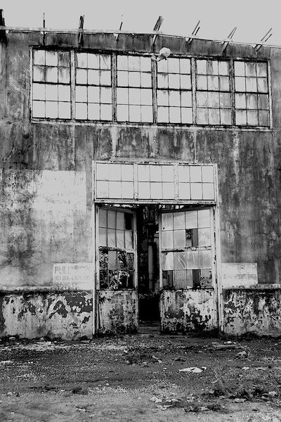 THE FRAGILE SPACE @ ISLA GRANDE BOULEVARD, SANTURCE, PUERTO RICO